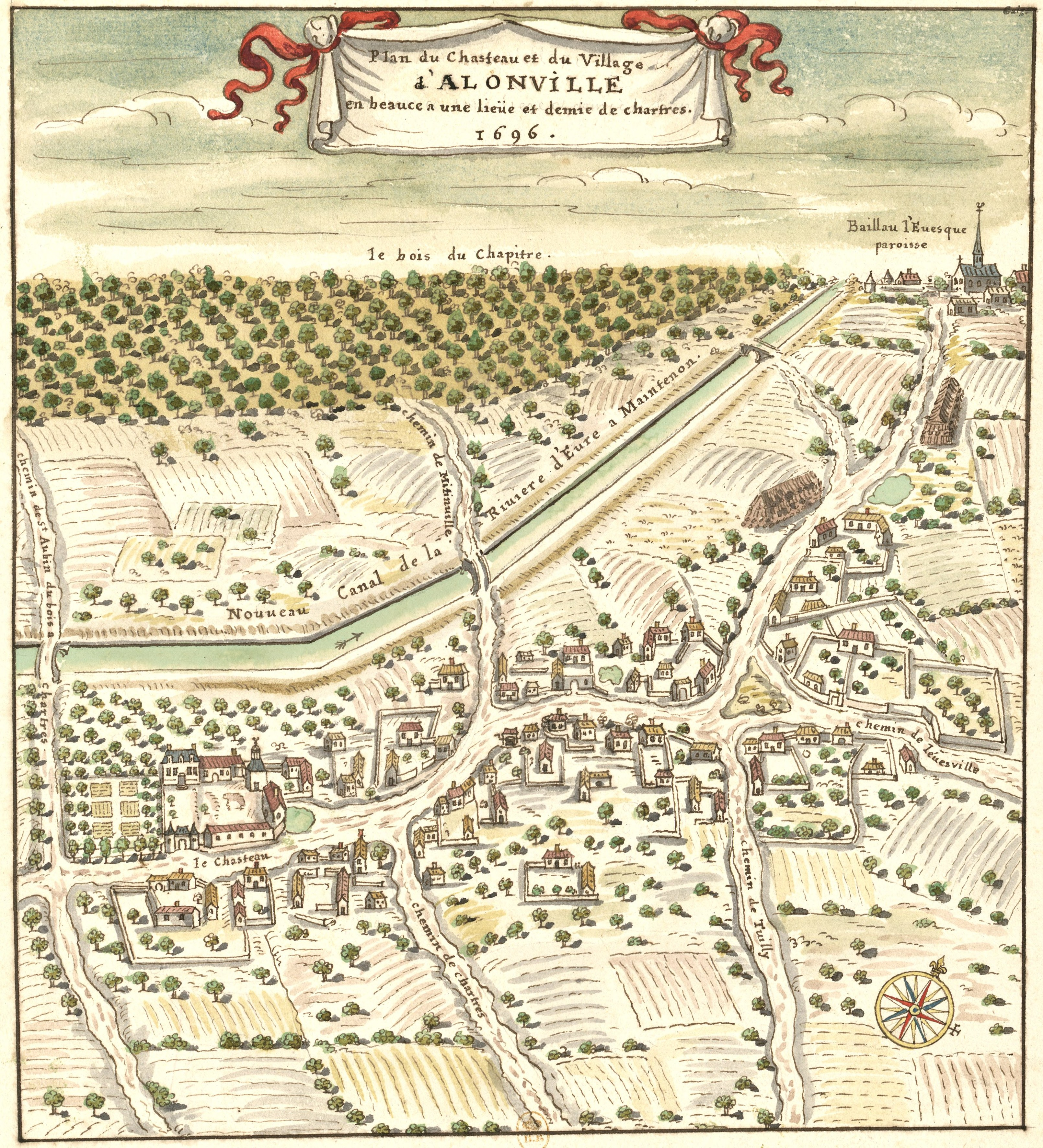 Dallonville Castle